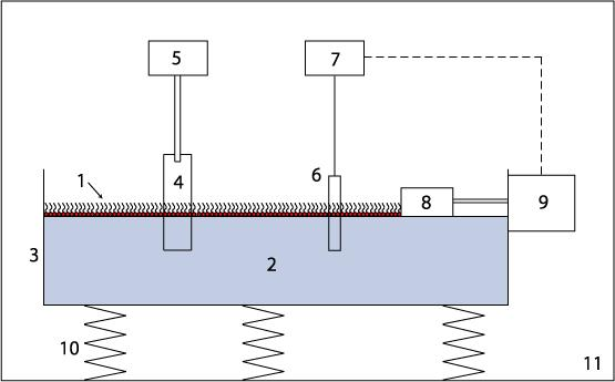 schematic of a Langmuir-Blodgett trough